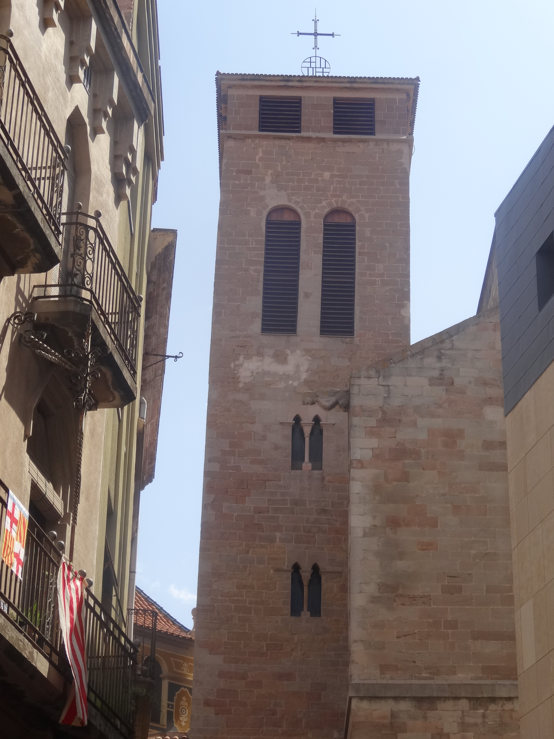 Basilica of Santa Maria, Igualada.